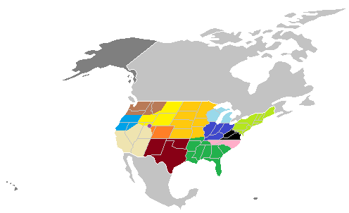 This map shows the assumed location of Panem's Districts in the Hunger Games fictional universe in comparison with the current administrative divisions of the United States. The rise of the oceans and the overflow beyond the American borders aren't taken in accompt. The Capitol District 1 (luxury items) District 2 (masonry, weaponry, law enforcement units) District 3 (electronics) District 4 (fishing) District 5 (power) District 6 (transportation) District 7 (lumber) District 8 (textiles) District 9 (grain) District 10 (livestock) District 11 (agriculture (fruits and vegetables especially)) District 12 (coal) District 13 (graphite, weaponry, thermonuclear weapons)